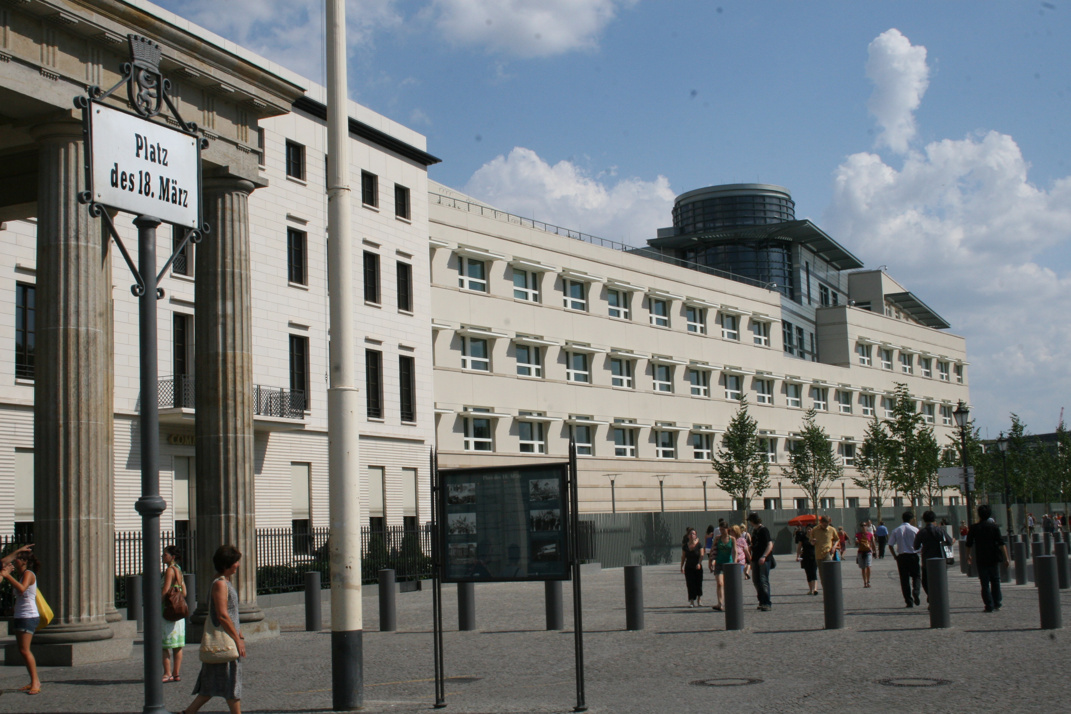 U.S. Embassy Berlin, view from the 18th of March Square